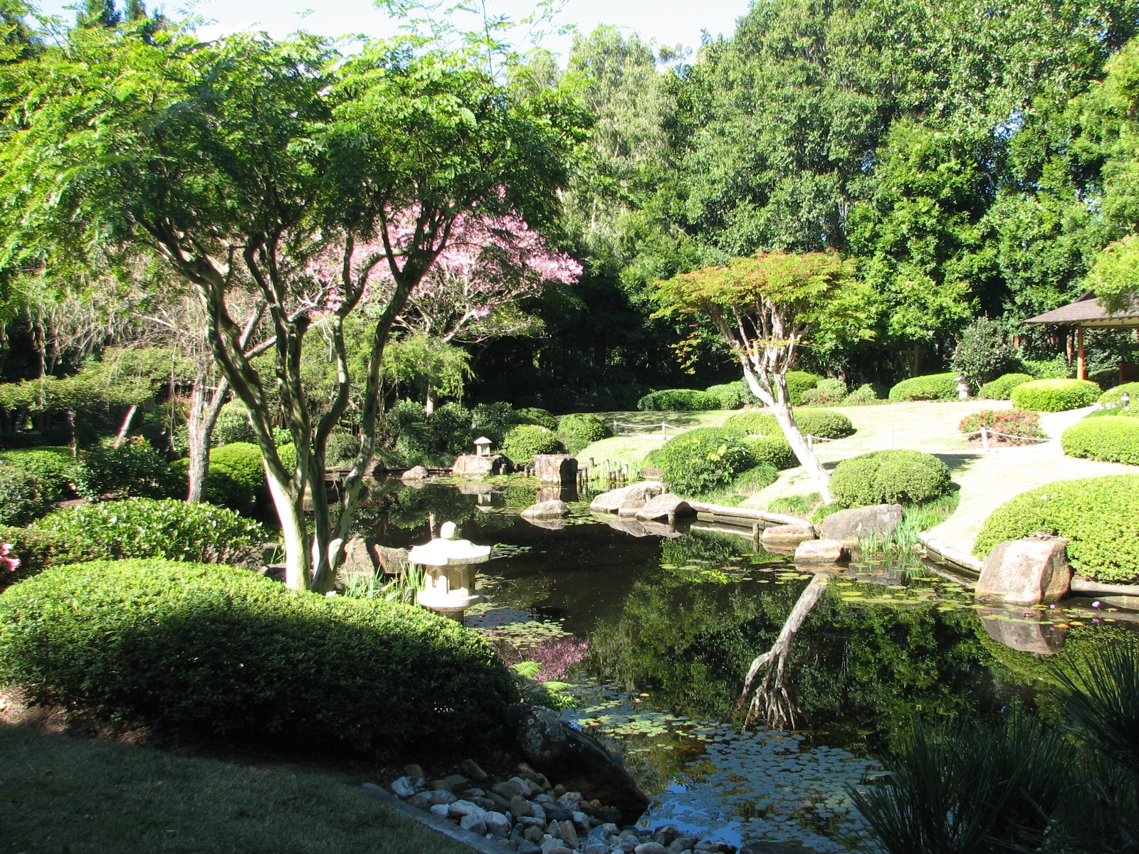 Japanese Gardens at Mt Coot-tha, Brisbane, Queensland, Australia